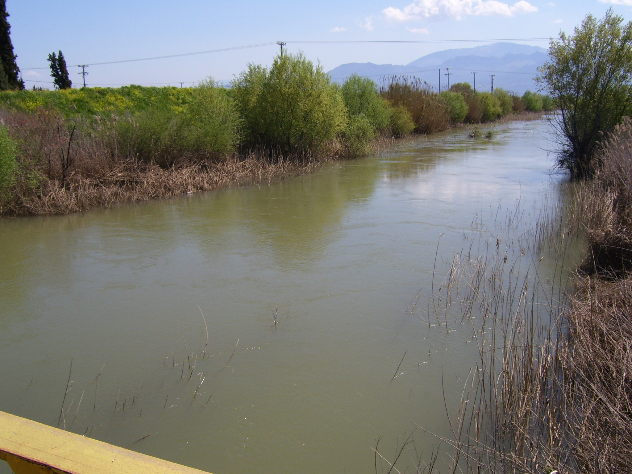 Kiphisos River, Boeotia